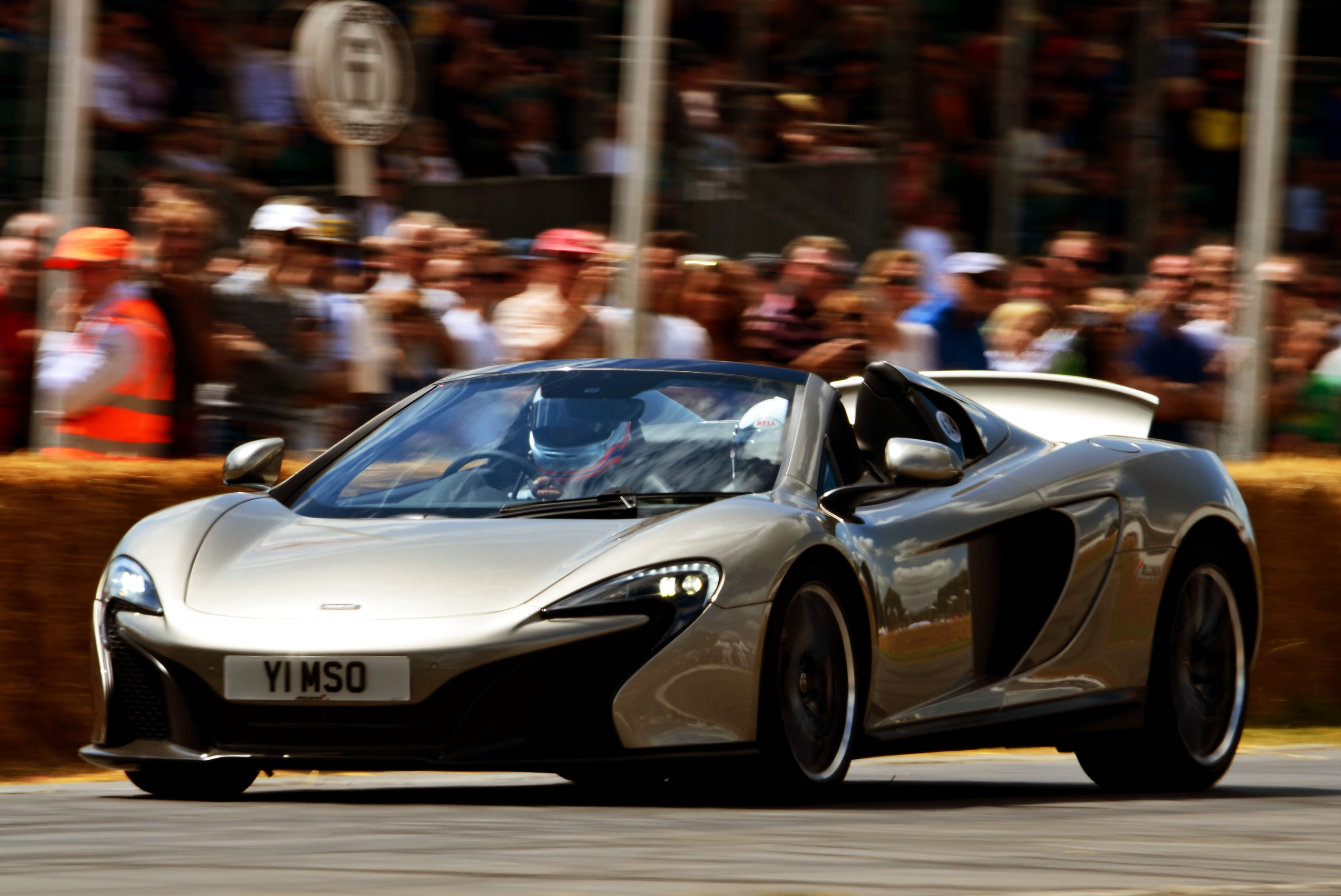 The McLaren 650S Spider at the 2014 Goodwood Festival of Speed.